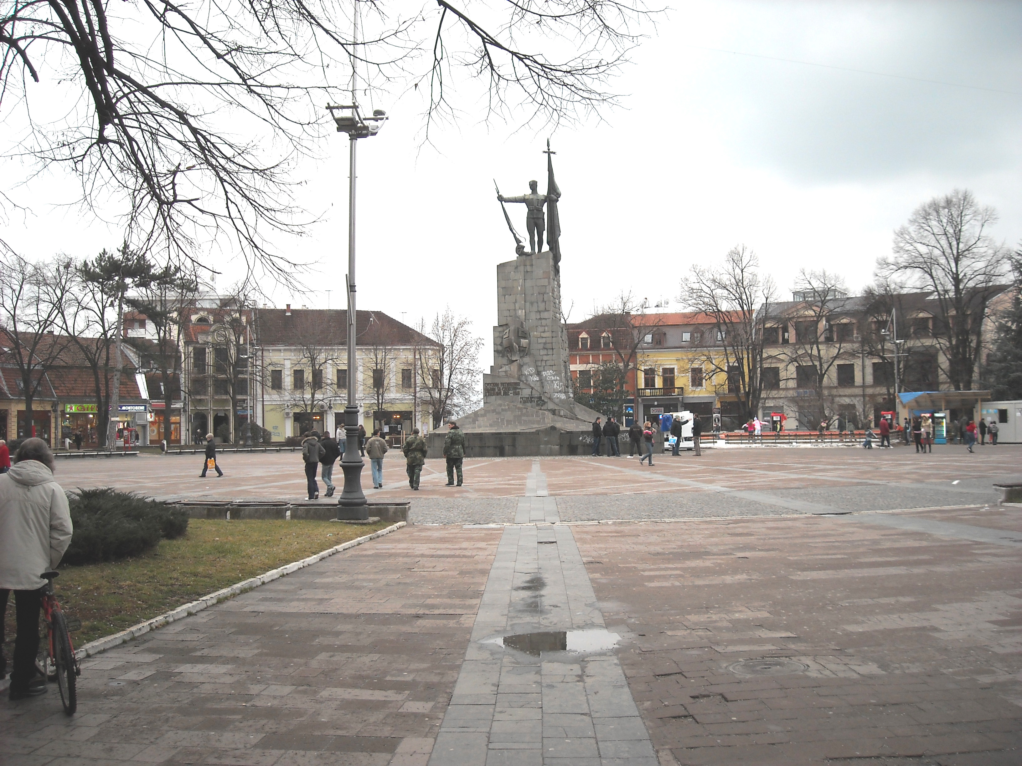 Center of Kraljevo